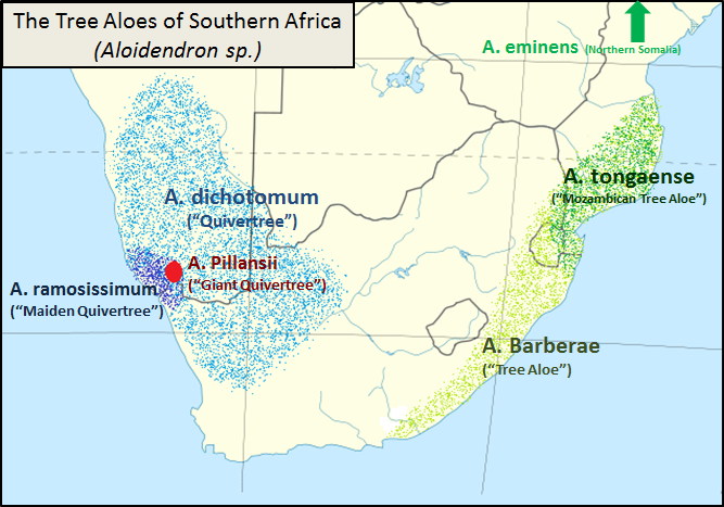 Map of the tree aloe species across southern Africa. Aloidendron. From top to bottom, left first: Aloidendron eminens Aloidendron tongaense Aloidendron dichotomum = Aloe dichotoma Aloidendron pillansii = Aloe pillansii Aloidendron ramosissimum = Aloe ramosissima Aloidendron barberae = Aloe barberae